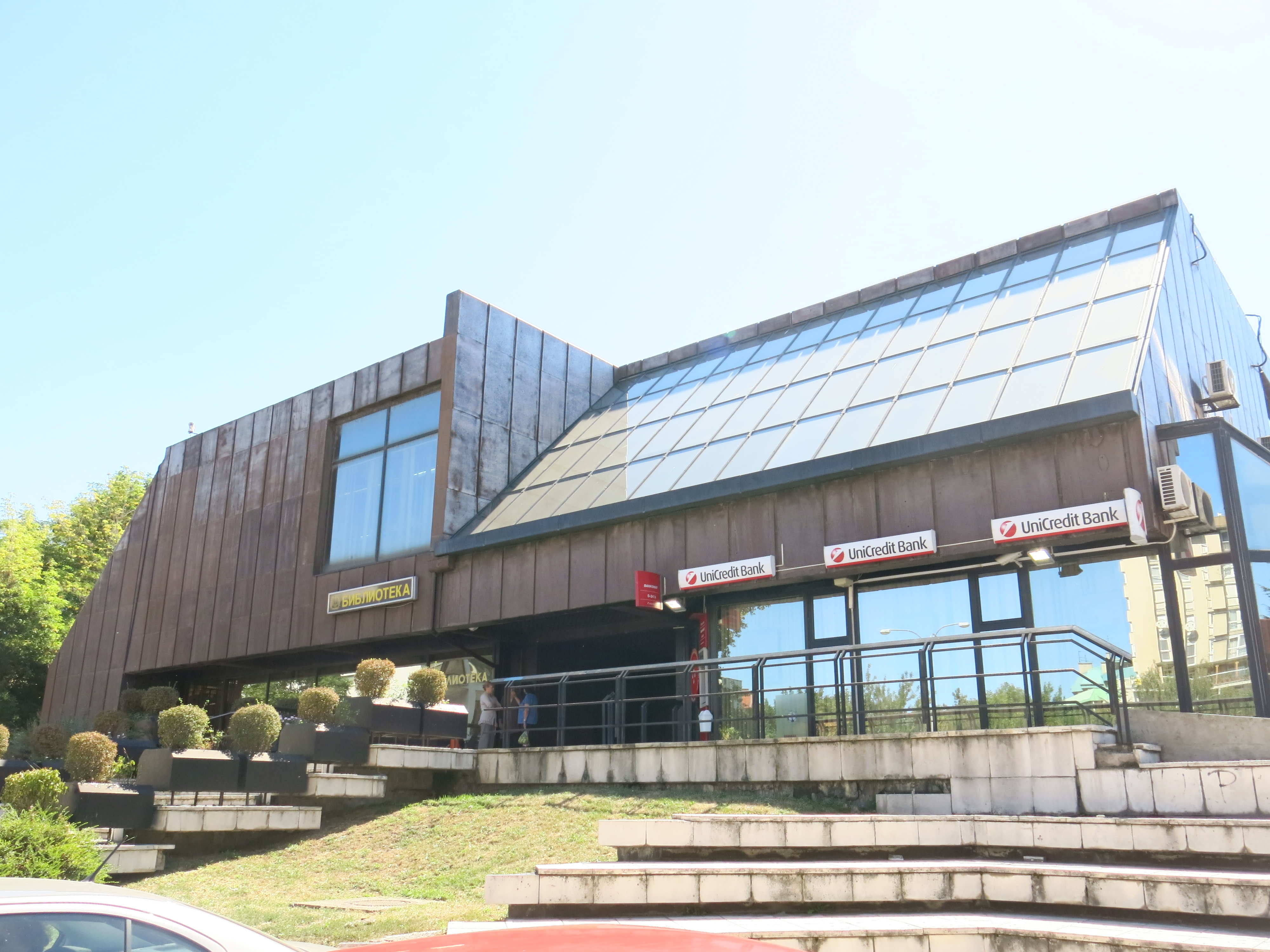 Smederevo, Public library